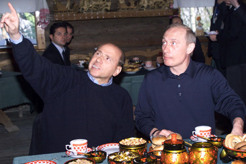 SOCHI. President Putin and Italian Prime Minister Silvio Berlusconi visiting the “Tea Houses” complex.